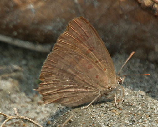 Dark Himalayan Oakblue Arhopala paramuta at Jayanti in Buxa Tiger Reserve in Jalpaiguri district of West Bengal, India.